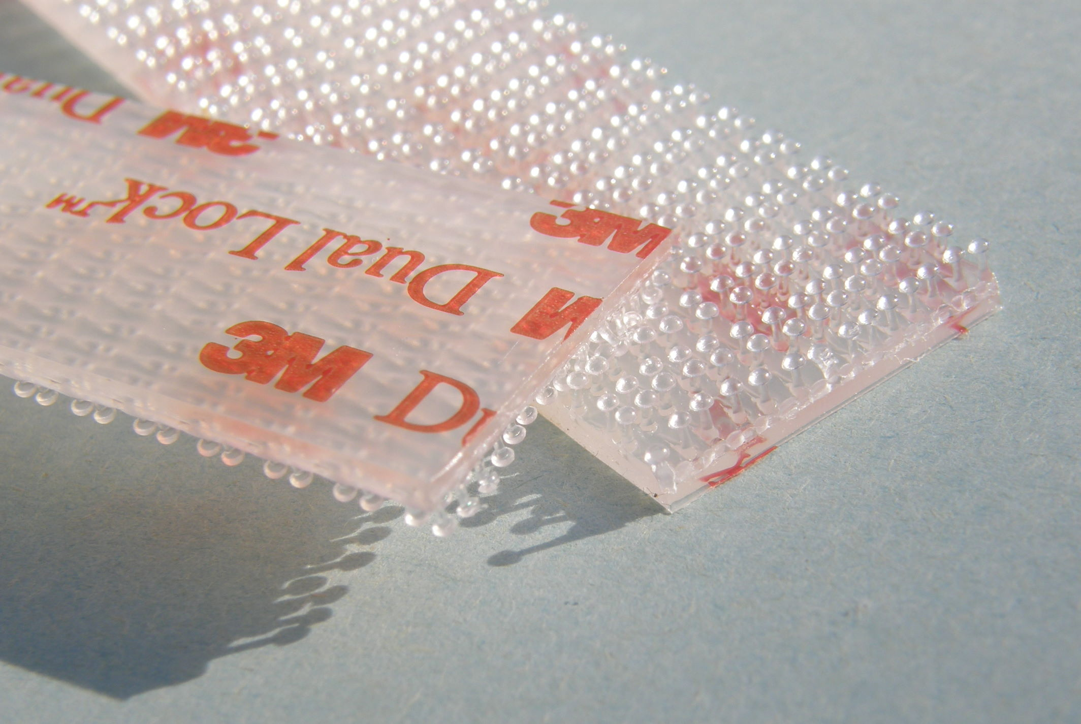 Velcro